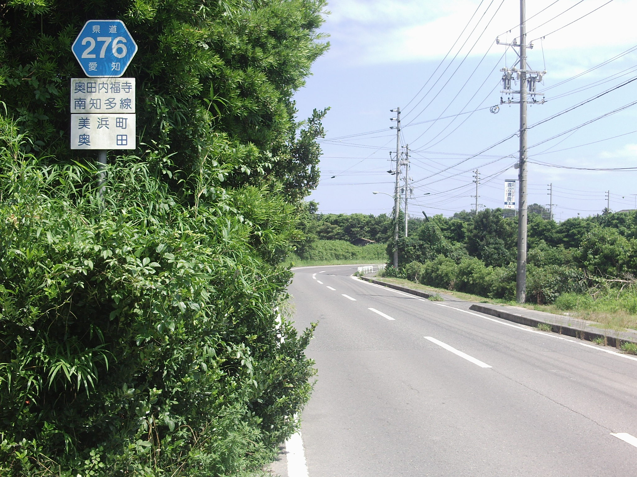 The Aichi Prefectural Road Route 276 in Oaza-Okuda, Mihama Town